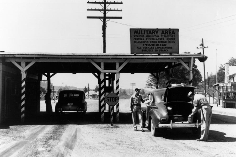 Military Security Guards Searching a Car Trunk at Elza Gate in Oak Ridge, Tennessee, in the 1940s.